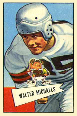 American football player Walt Michaels on a 1952 Bowman Large card.